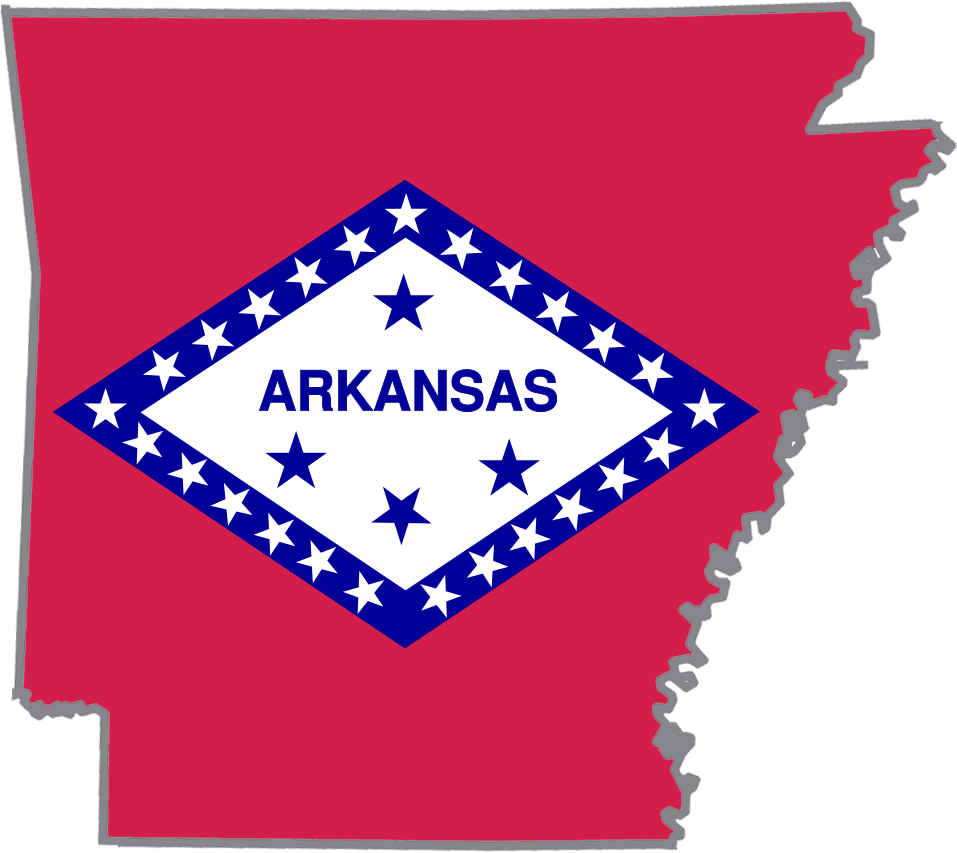 A new symbol for WikiProject Arkansas on Wikipedia.